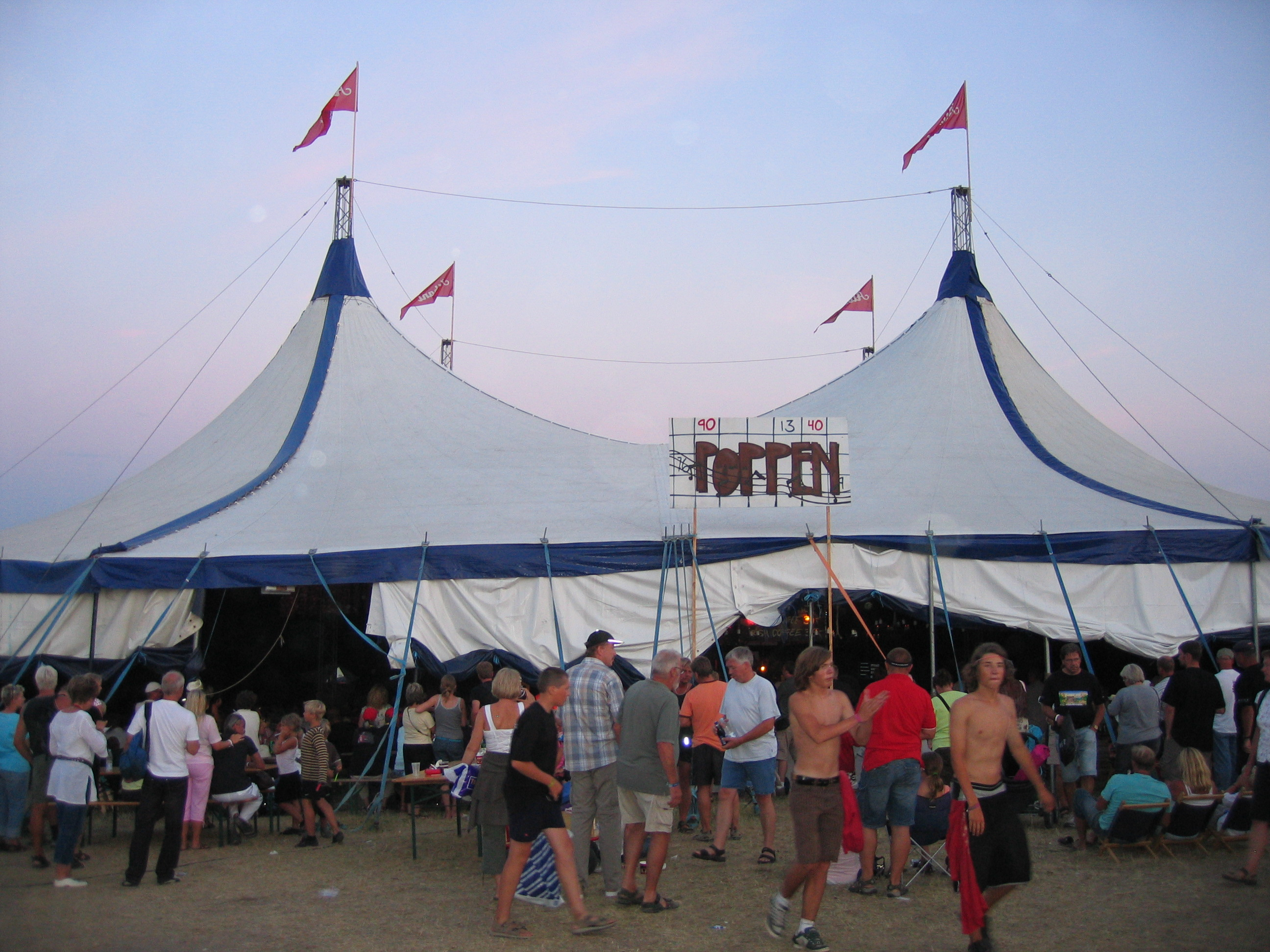 Picture of the "Poppen" tent at Langelandsfestivalen 2006. Picture taken by User:Lhademmor